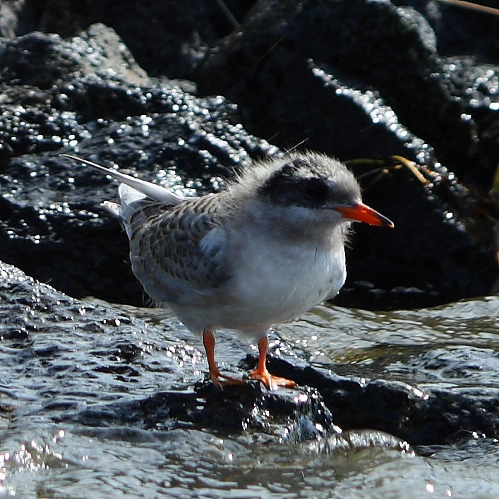 Juvenile arctic tern